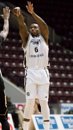 Mississauga Power player Jushay Rockett shoots the basketball.